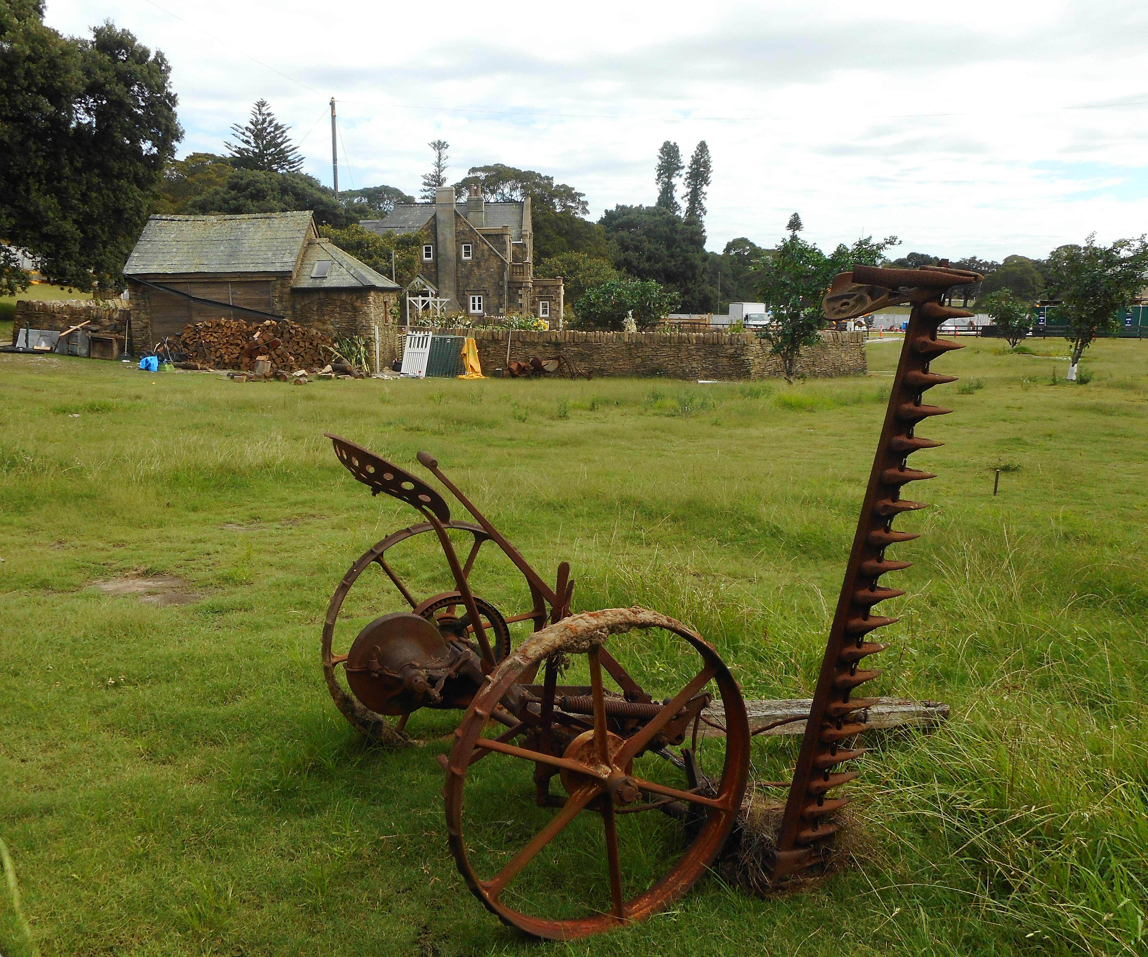 Peter Rabbit movie set, Centennial Park, Sydney